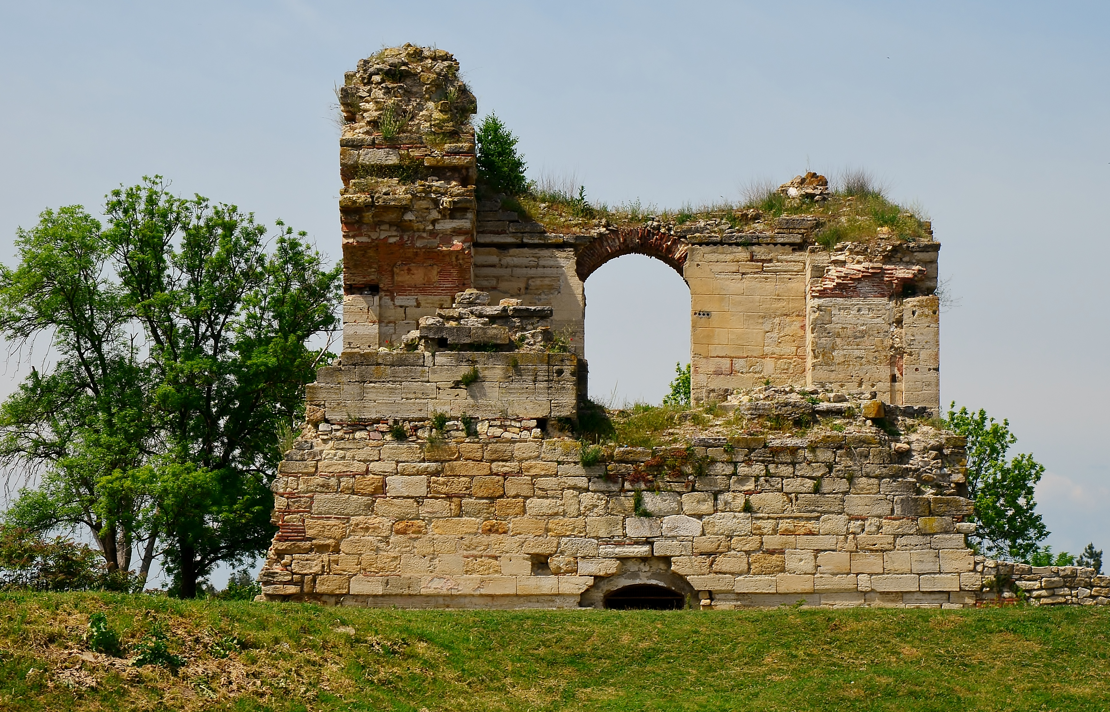 Cihannüma Kasrı (Panaromic Pavillion)